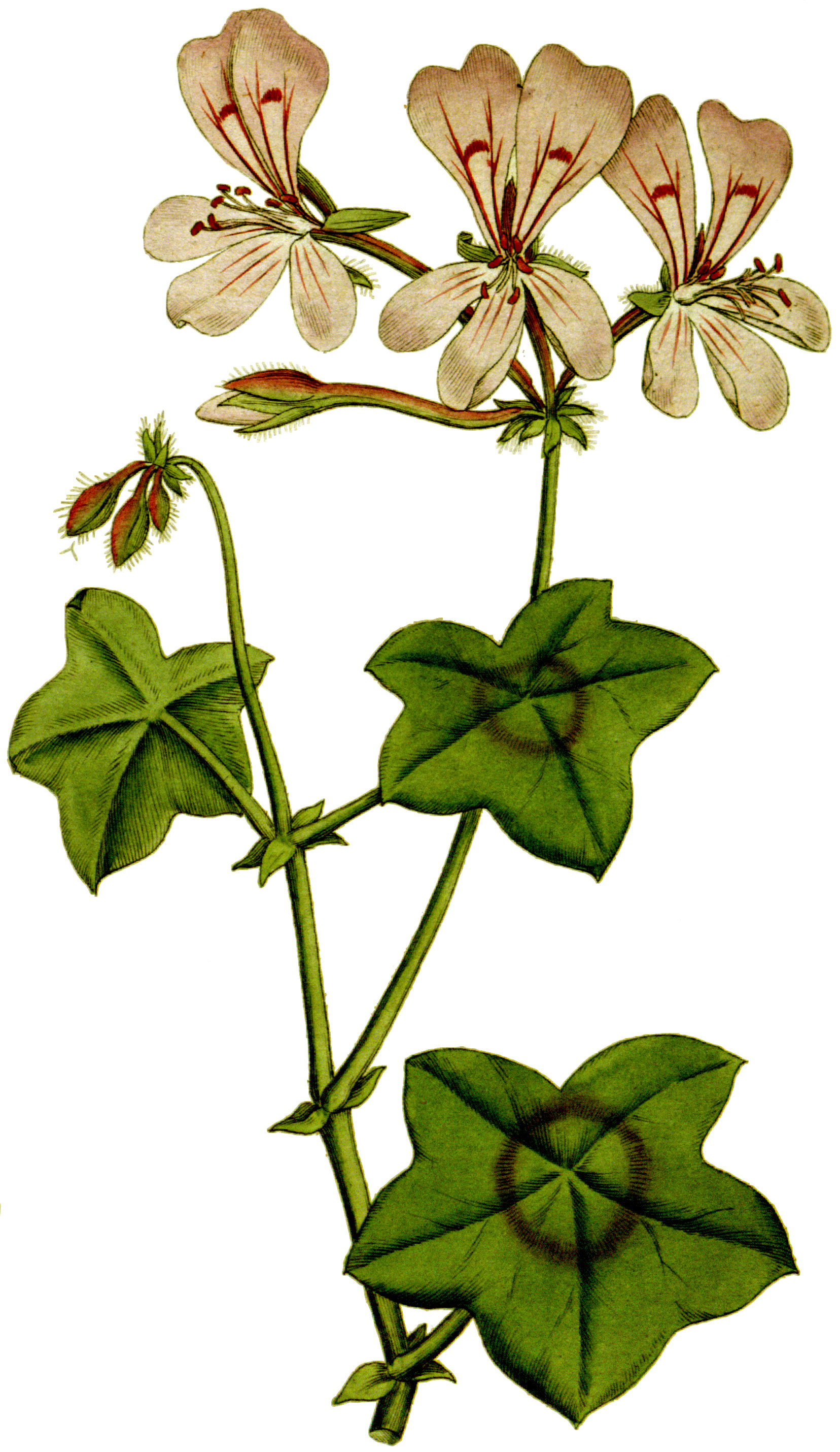 Plate 20, Geranium peltatum (Pelargonium peltatum) From Curtis's Botanical Magazine, Volume 1. Edited from the original, plant image has been masked so that plant could be color corrected independent of paper.